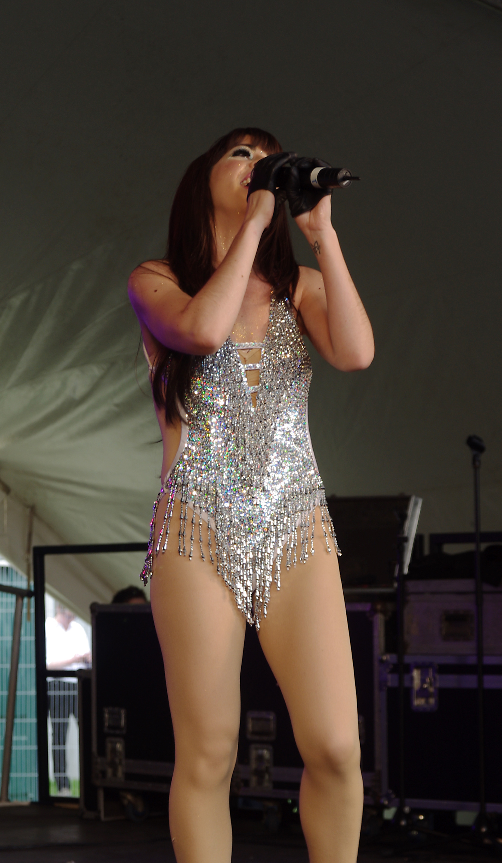 Ruby White performs on the main stage at Cardiff Mardi Gras.